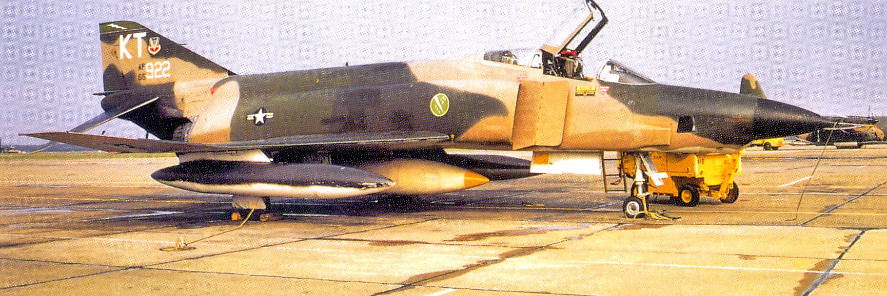 McDonnell RF-4C-27-MC Phantom 65-0922 7th Tactical Reconnaissance Squadron 1970. Retired to AMARC as FP0924 May 11, 1993. Still on AMARC inventory Jan 15, 2008